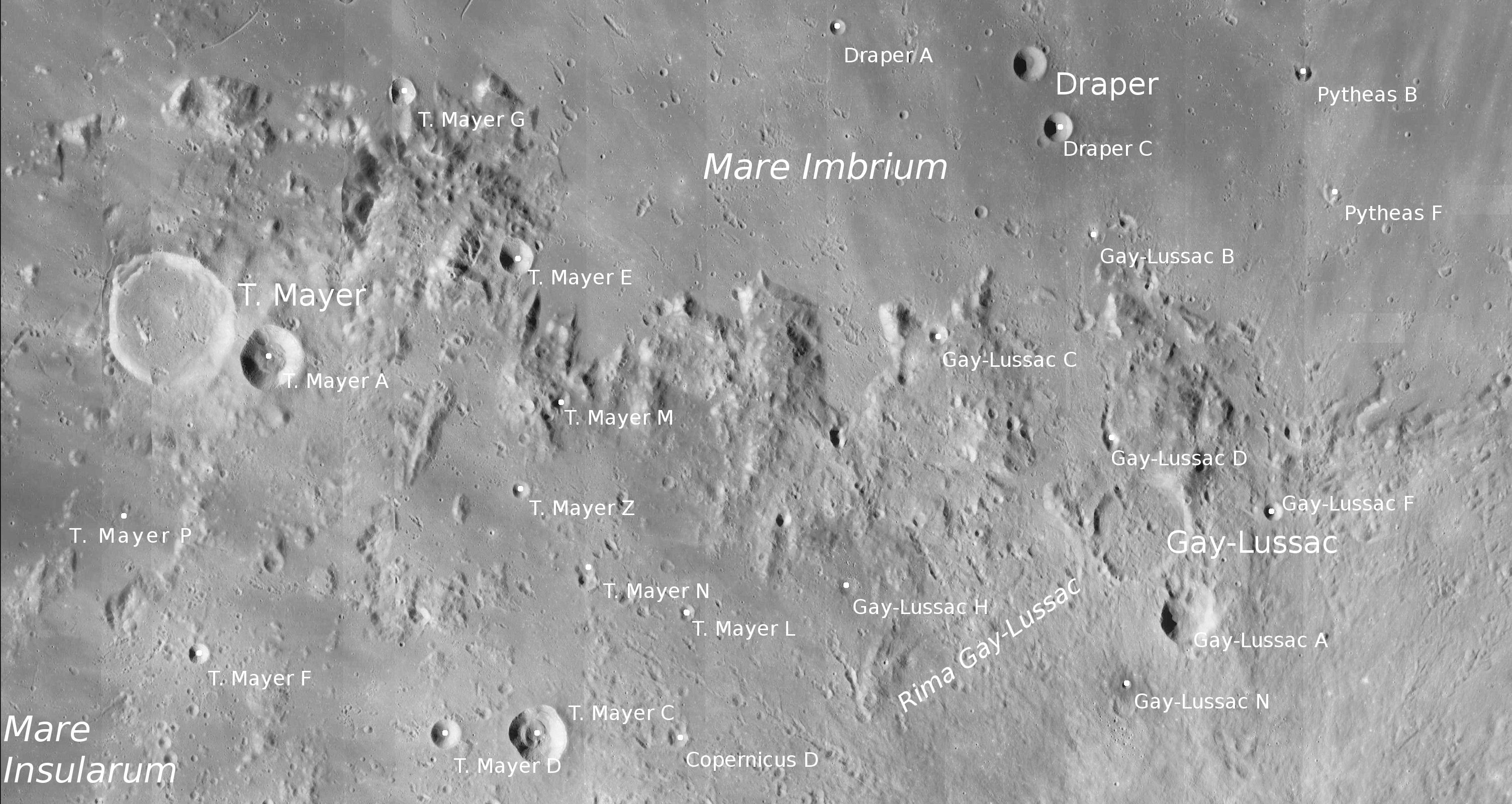 Montes Carpatus with craters T. Mayer and Gay-Lussac (detail of LRO - WAC global moon mosaic; Mercator projection)